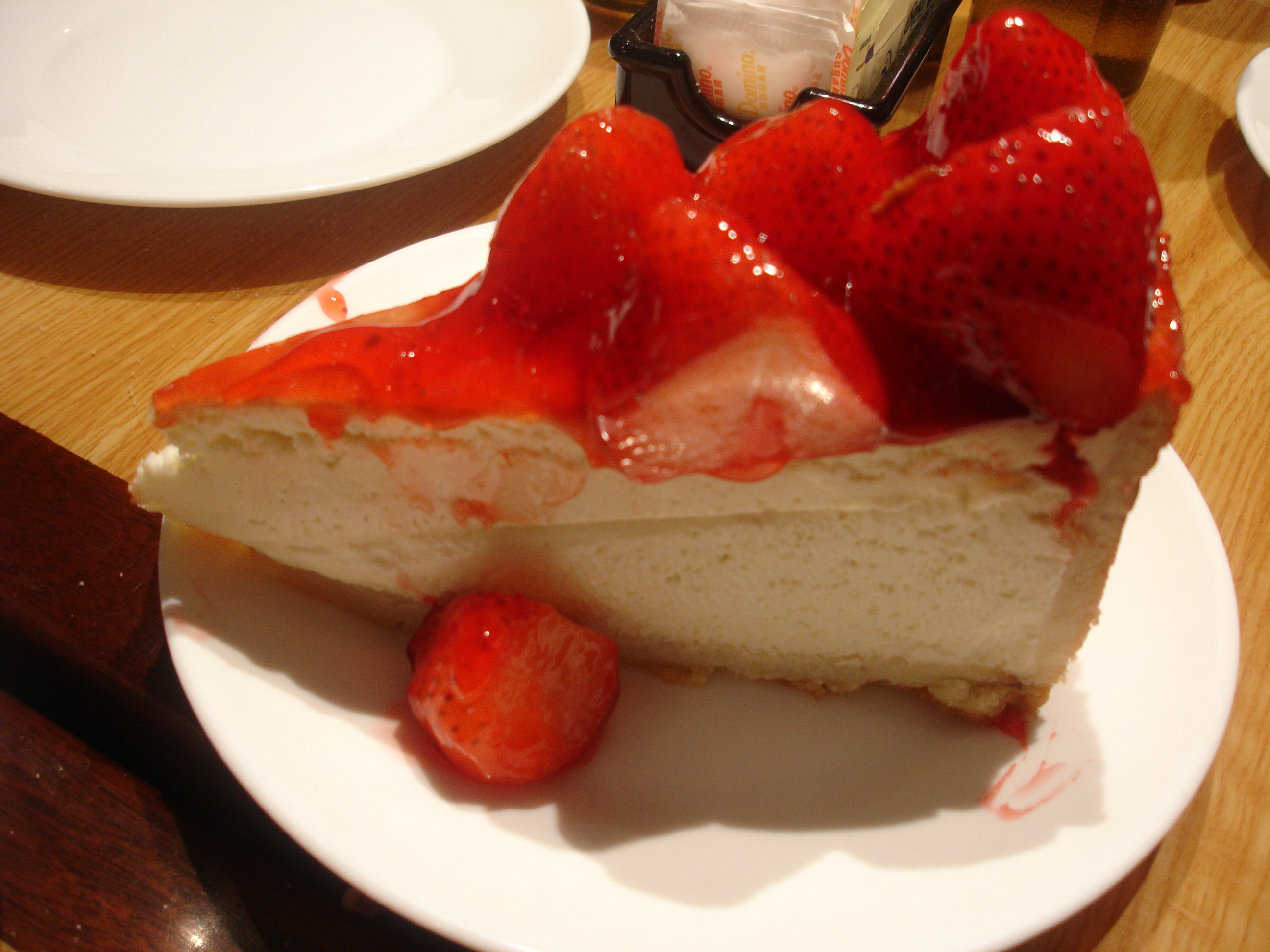 A slice of Strawberry Cheesecake from the Carnegie Deli.